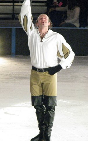 Philippe Candeloro at the 2008 Findlay Ice Classics